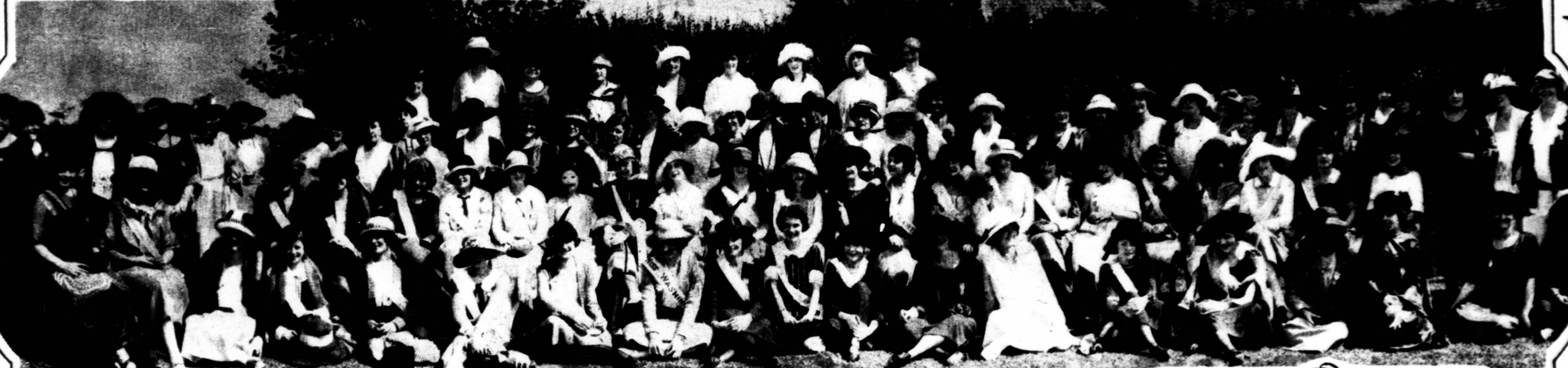 Group photo of 1922 Miss America contestants